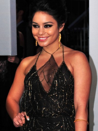 Vanessa Hudgens at the 38th People's Choice Awards, Red Carpet 2012.